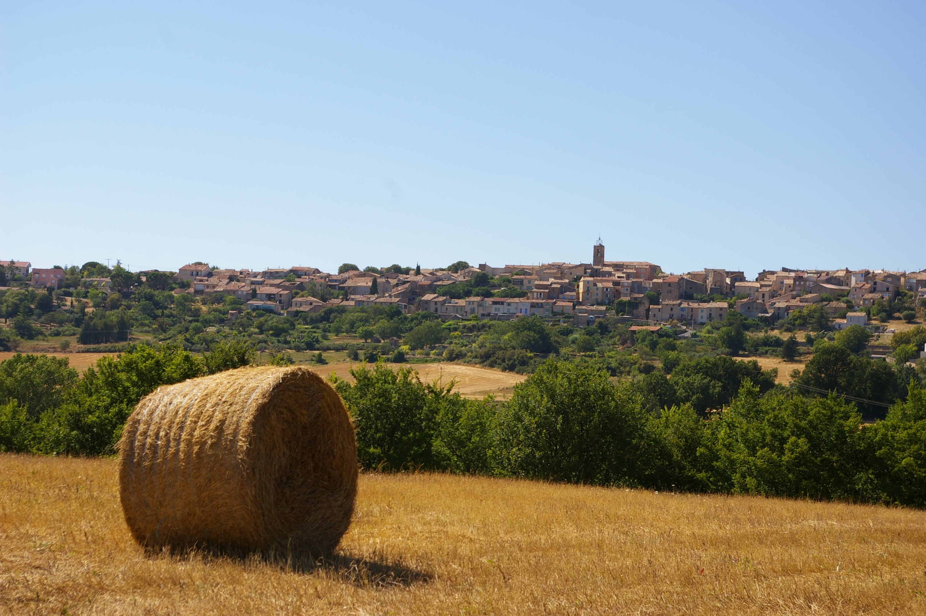 View of Puimosson, dept. Alpes-de-Haute-Provence